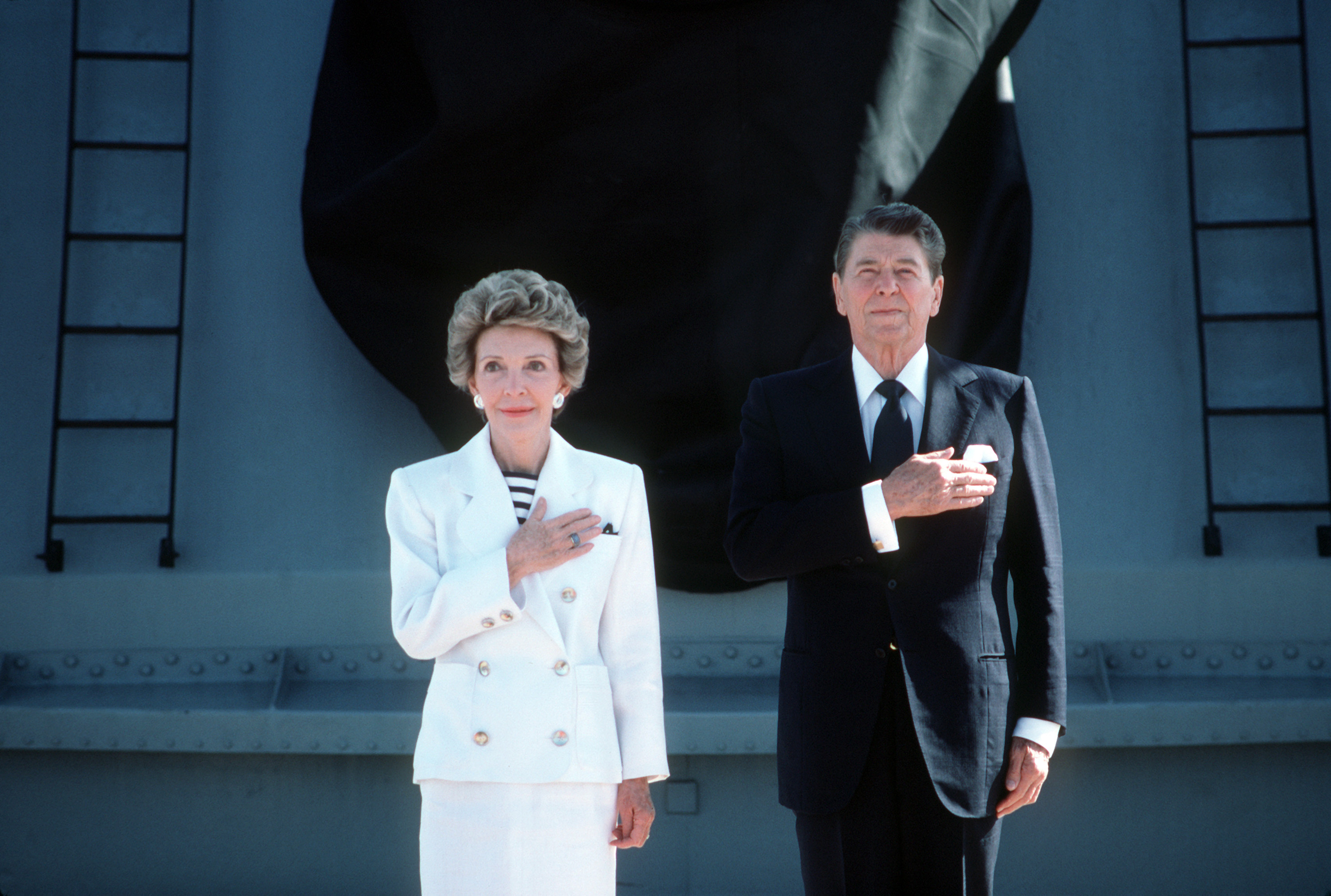 President and Mrs. Ronald Reagan salute the flag aboard the battleship USS Iowa (BB 61) during the International Naval Review. Location: NEW YORK HARBOR